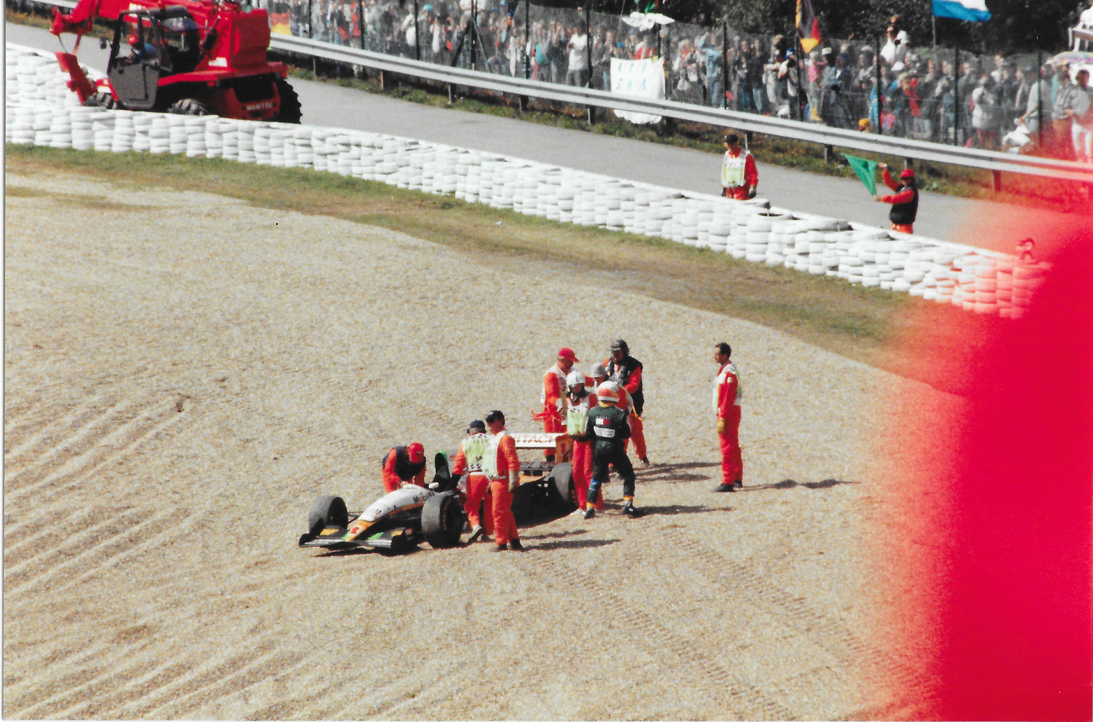 Adams had replaced Alessandro Zanardi for the 1994 Belgian Grand Prix, making his F1 debut in at home home circuit. On lap 15 he spun his Mugen-Honda powered Lotus 109 into the gravel at Pouhon. Photograph taken by a relative.